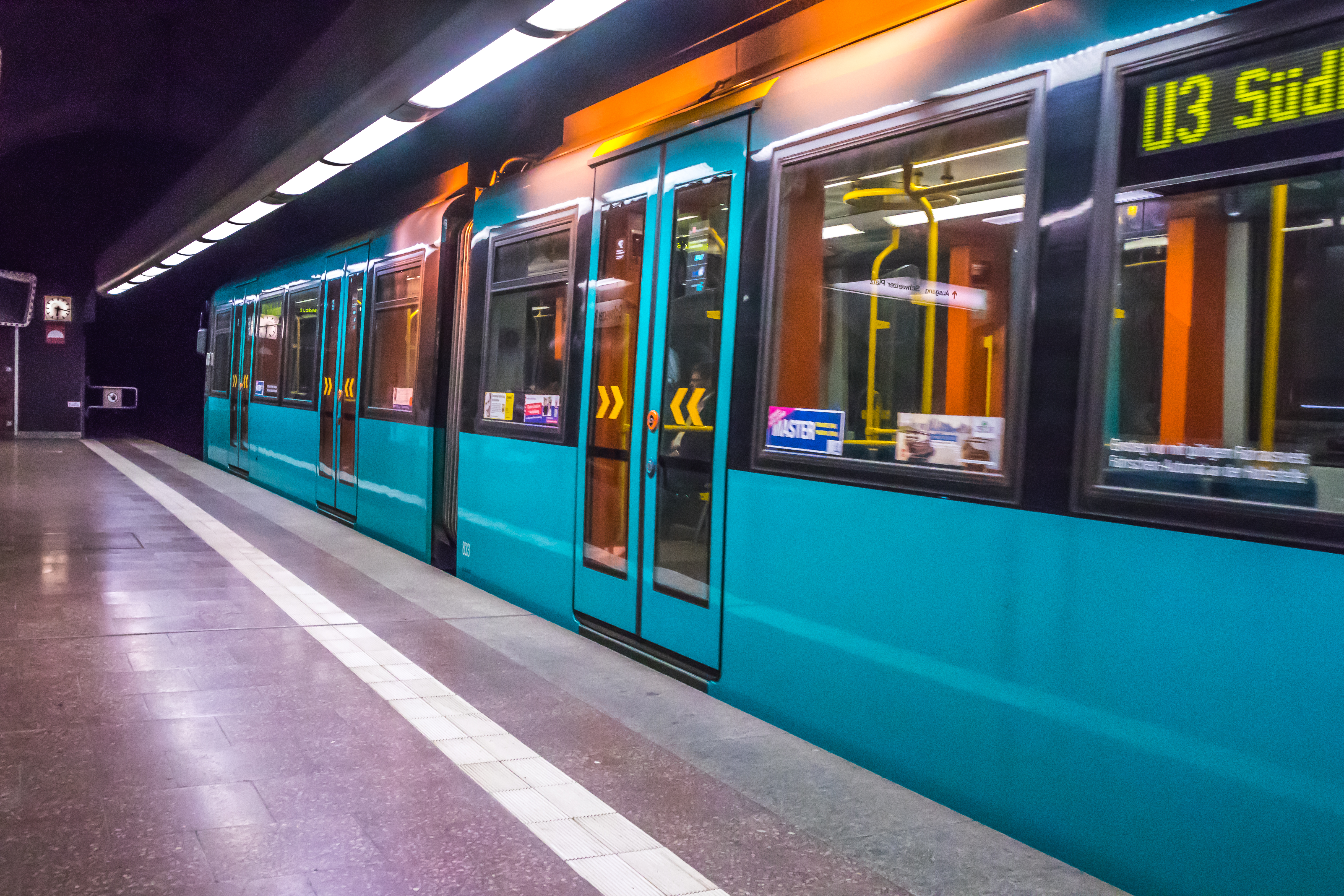 U-Bahn 3 in subway station "Schweizer Platz", Frankfurt on the Main (08/2017 - with a ligth camera and good shoes ... :- ) ....)